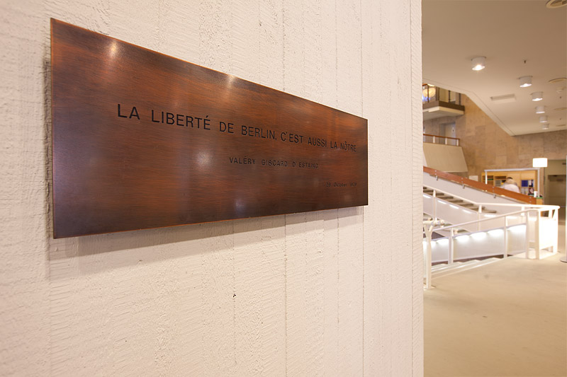 Plaque in the east foyer of the Staatsbibliothek zu Berlin (Potsdamer Straße building) in remembrance of the state visit of Valéry Giscard d'Estaing in October 1979. The words "La liberté de Berlin, c'est aussi la nôtre." (The freedom of Berlin is also our own freedom.) are taken from the speech that he held here.